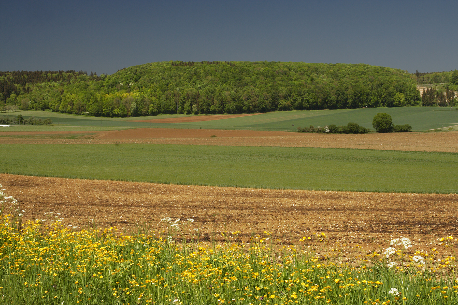 The „Lautertal-Störung“, Swabian Alb is the most important fault, crossing the Große Lauter in the rivers lower section (the river valley is approx. 1.5 km to the right, outside the photo). The “dip-slip” fault strikes SSW-NNE for ca. 15 km, with the lower section being to the south. The fault is morphologically well visible. H. Prinz, 1959, separated the fault into three sections of geological epochs: Paleogene, Lower Miocene and Middle Miocene. The youngest displacement is to the south of the river valley, next to the village Oberwilzingen (left outside the photo). Here the dip-slip is of remarkable 100 - 115 m.